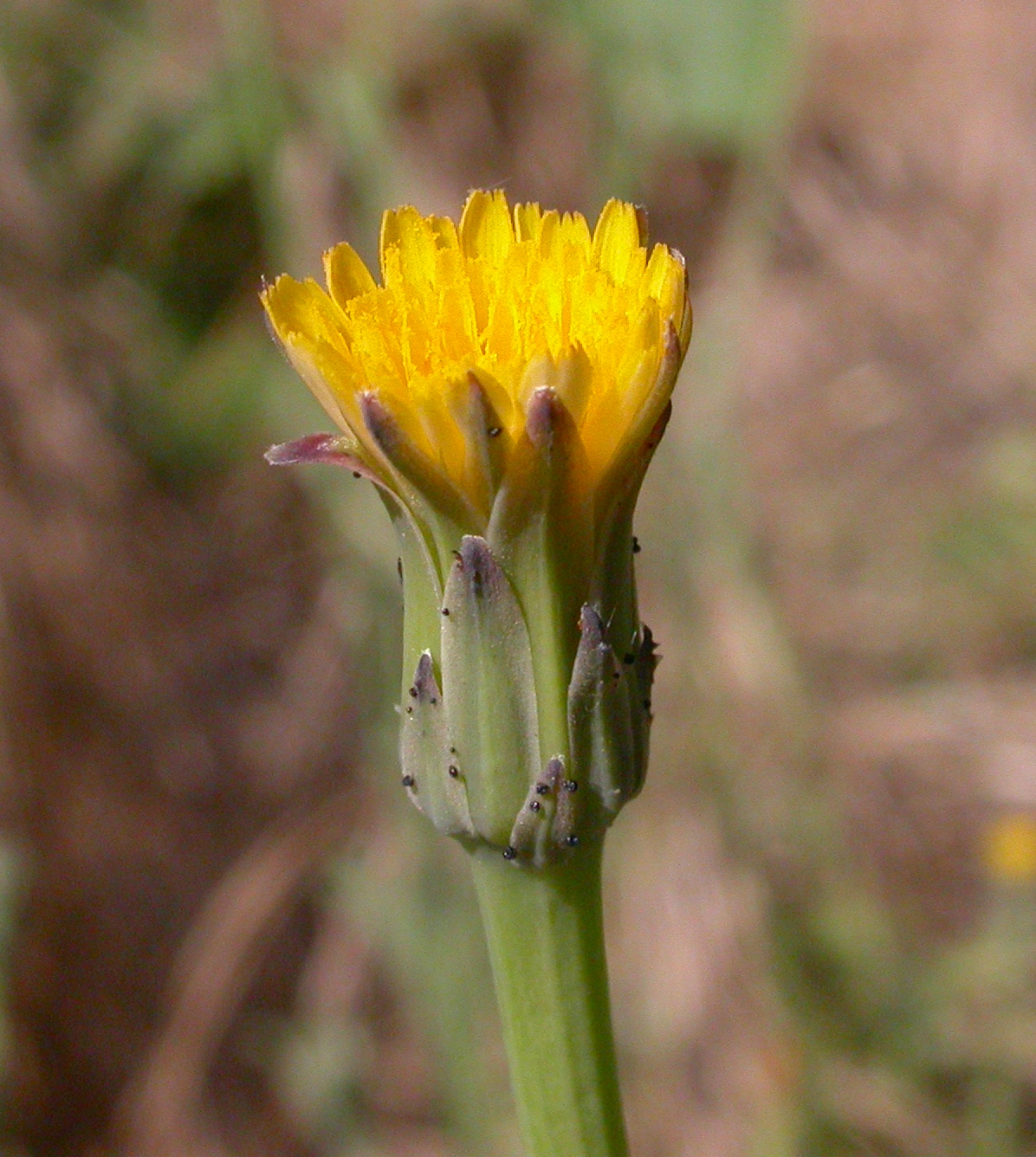 Hypochoeris glabra capitulum Photographed in Voorhis Ecological Reserve near Pomona, CA, USA. Species is an introduced weed.